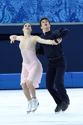 Tessa Virtue and Scott Moir at the 2014 Winter Olympics